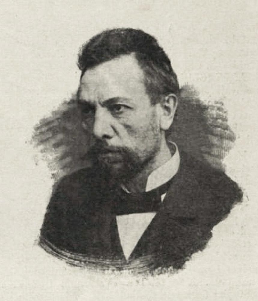 Ödön Kacziány